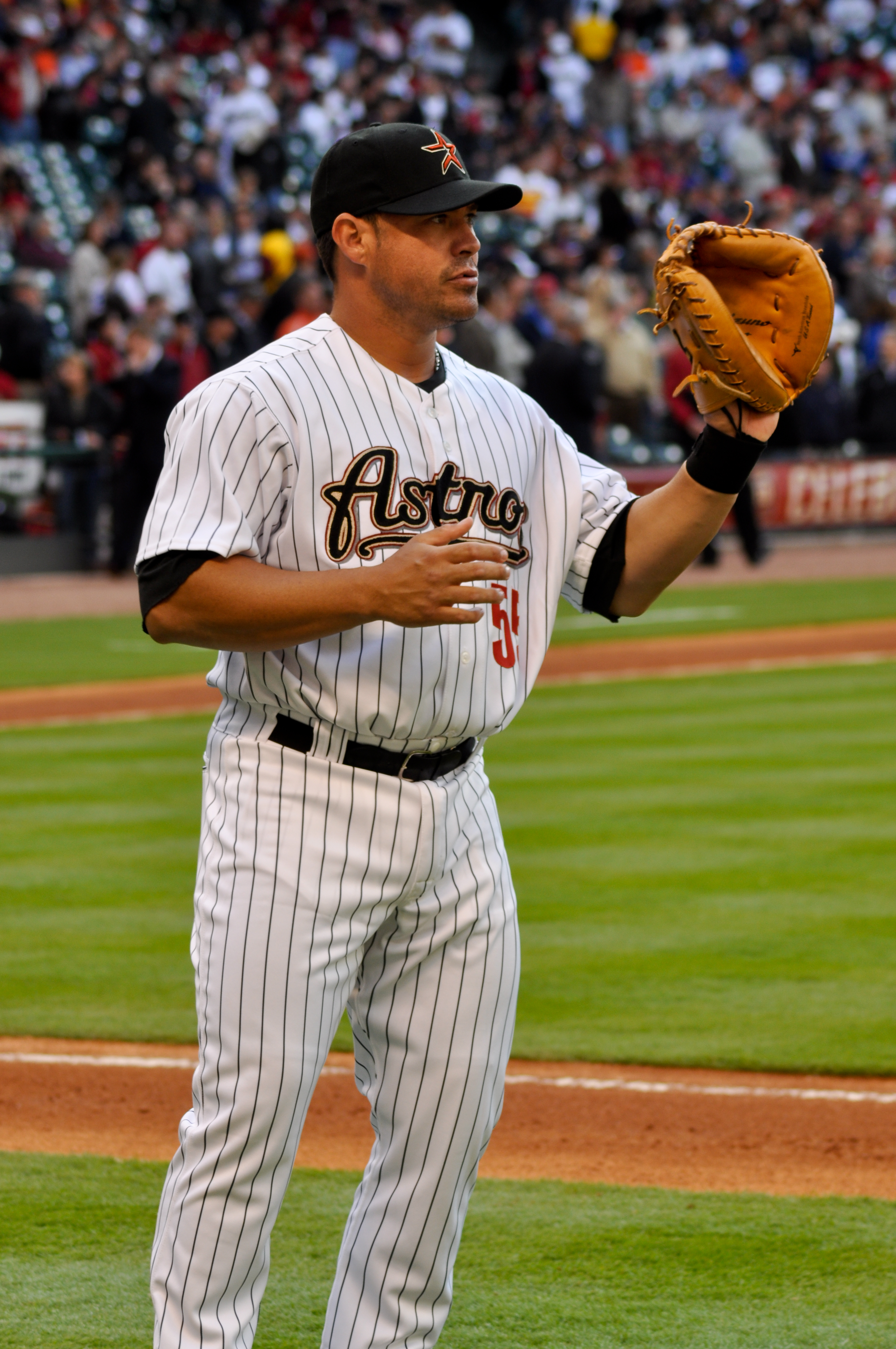 Humberto Quintero